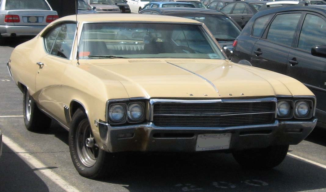 1968-1969 Buick Skylark photographed in USA.